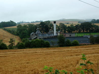 The Glendronach Distillery, near Huntly, Aberdeenshire, Scotland